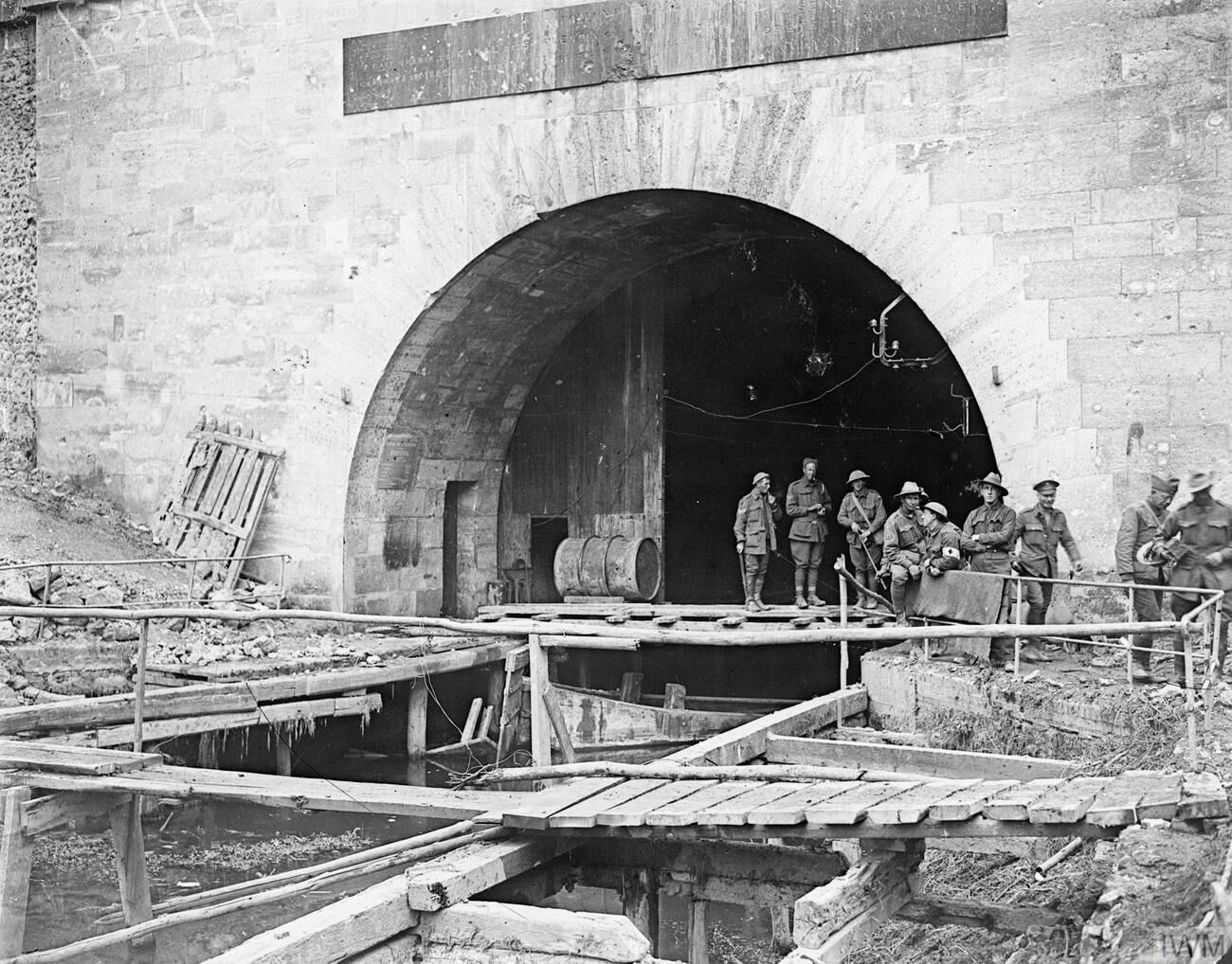 The Hundred Days Offensive, August-november 1918 Battle of St. Quentin Canal. Soldiers of the 30th American Infantry Division and 15th Australian Brigade (5th Australian Division) at the southern entrance of the St. Quentin Canal Tunnel at Riqueval near Bellicourt, captured by 30th American Division on 29th September 1918. 4 October 1918.